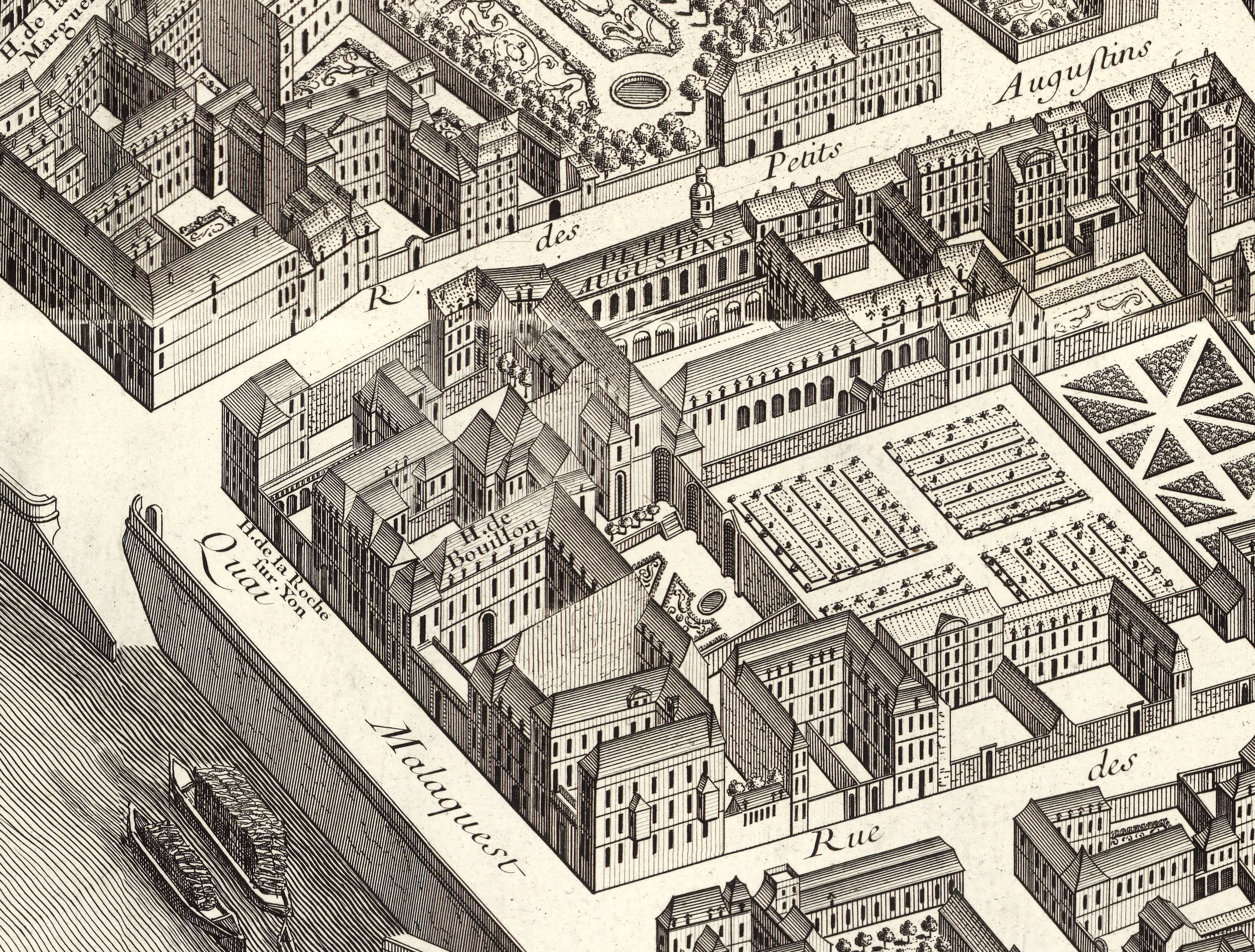 The Hôtel de la Roche-sur-Yon (also known as the Hôtel du Plessi-Guénégaud on the Turgot map of Paris